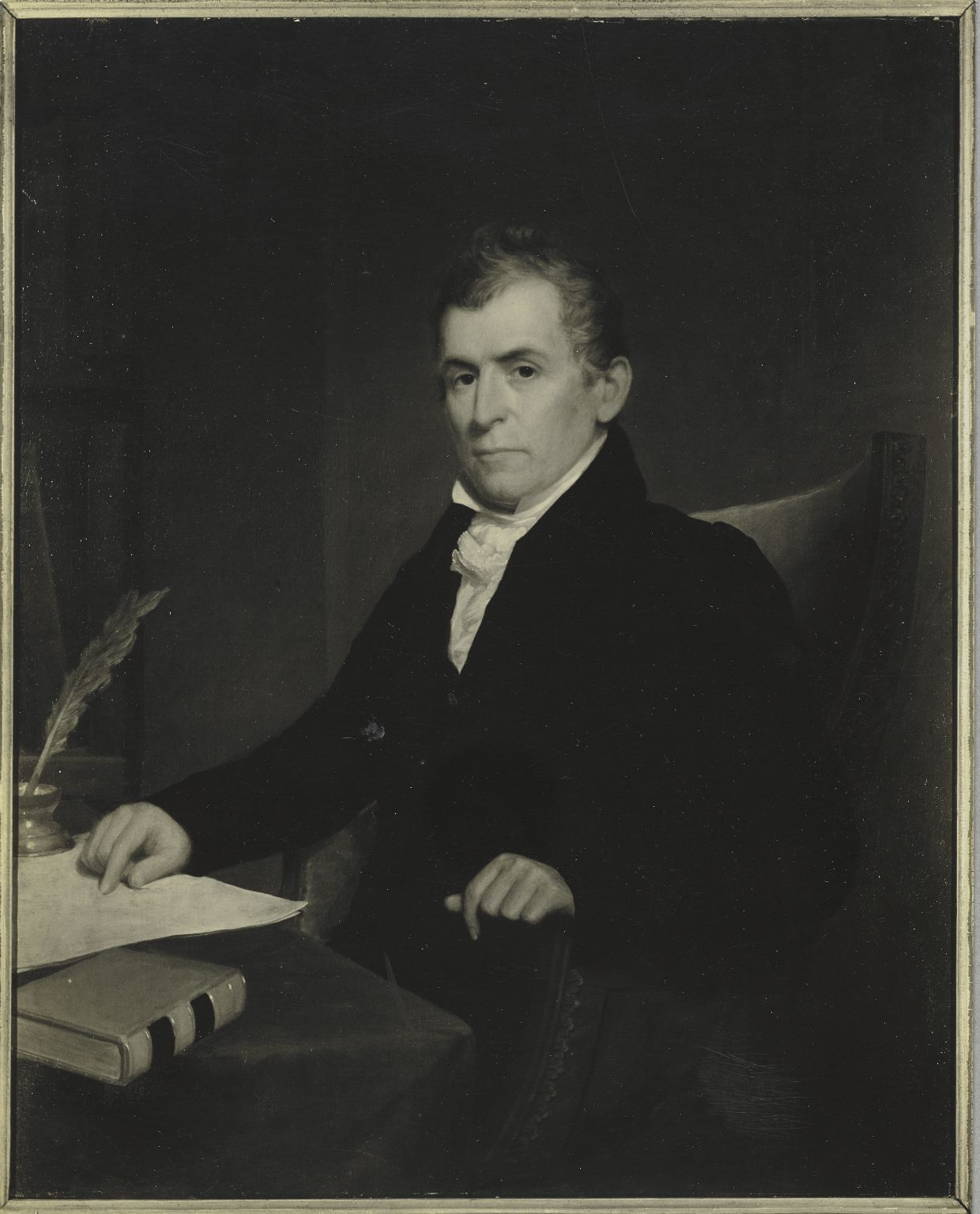 Professor James Luce Kingsley. 44 x 35 in. 111.8 x 88.9 cm. oil on canvas.